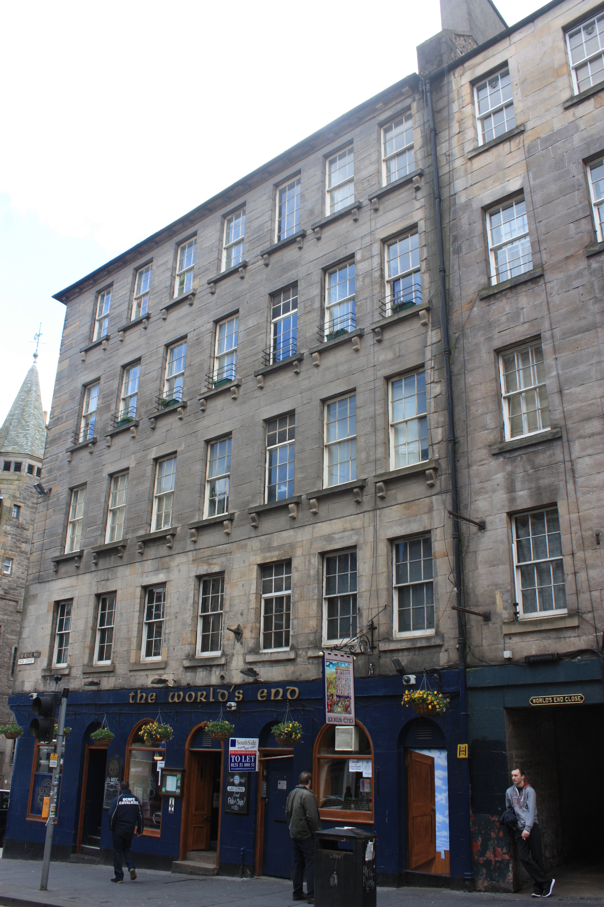 18th century tennement at Worlds End Close, Edinburgh